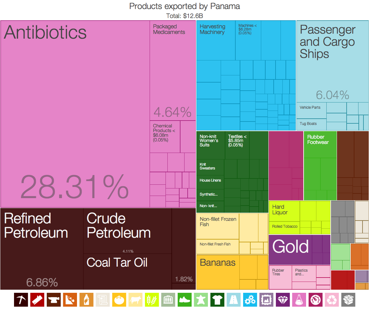 Export Treemap from MIT Harvard Economic Complexity Observatory